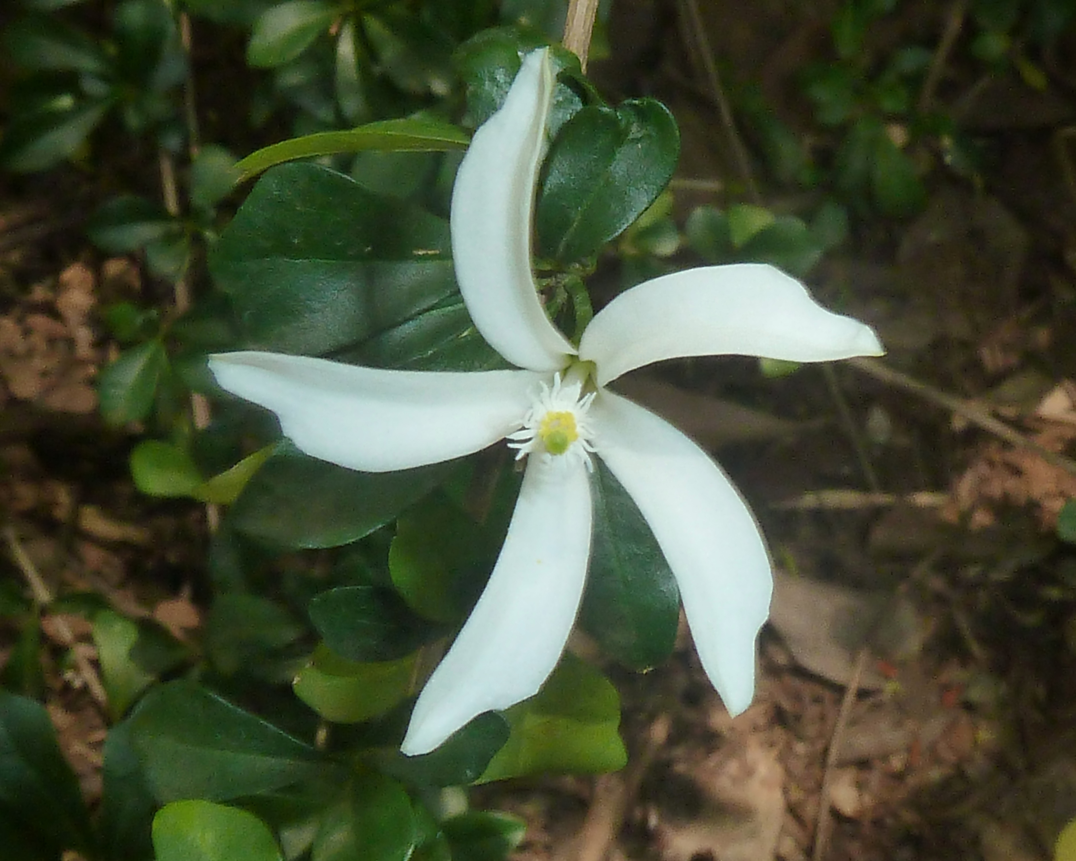 Foliage and flower of Lesser honeysuckle tree in the Manie van der Schijff Botanical Garden, Pretoria